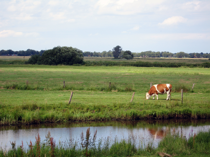 A cow on a pasture of the Blockland in Bremen, Germany.